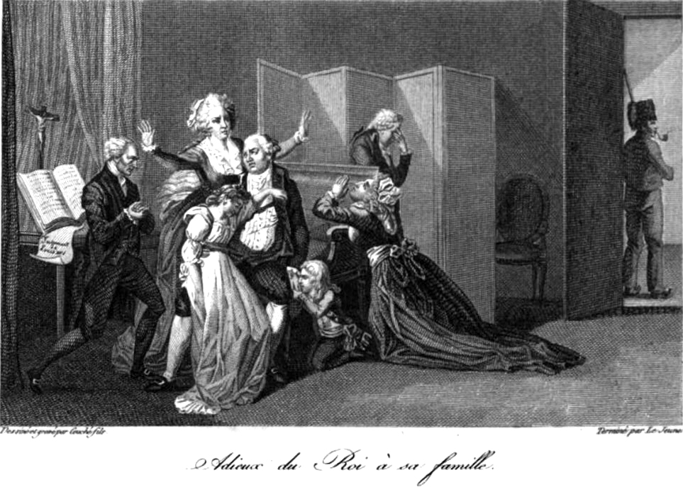 Louis XVI's Farewell to his Family at the Temple (Paris)